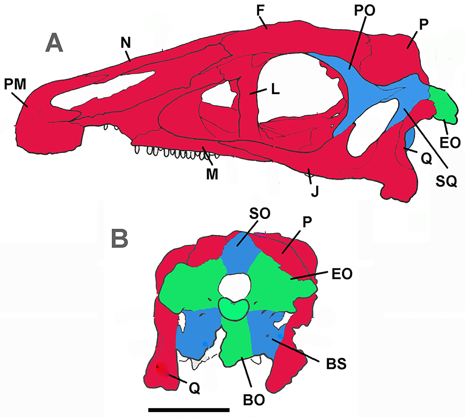 Schematic Erlikosaurus andrewsi skull in A, lateral and B, posterior views. Red represents skull originating from neural crest, blue, cephalic mesoderm origin, and green cephalic mesoderm origin. Modified from Clark, Perle, and Norell, 1994 with permission from American Museum of Natural History. Scale bar equals approximately 5 cm.